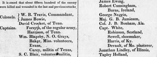 This is a partial scan of the list of Texans killed at the Battle of the Alamo, as published in the Telegraph and Texas Register on Thursday, March 24, 1836 in San Felipe, Texas. Vol. 1, No. 21, Ed. 1. At the time, Texas had declared its independence from Mexico but was in the process of fighting to have that independence recognized; Mexico still claimed the area.